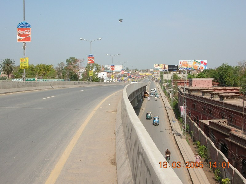 Author: Zeeshan Javeed Taken photo during a trip to Multan, Pakistan in 2005.